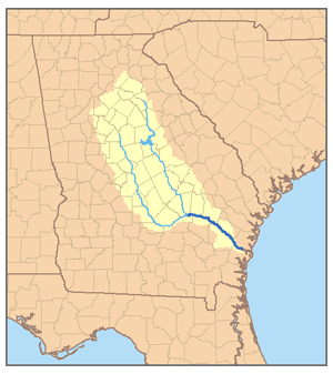 This is a map of the Altamaha River system. I, Pfly, created it based on USGS data.